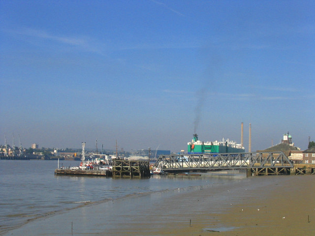 Tilbury Ferry Dock, Tilbury, Essex. Dock for the Tilbury-Gravesend passenger ferry.